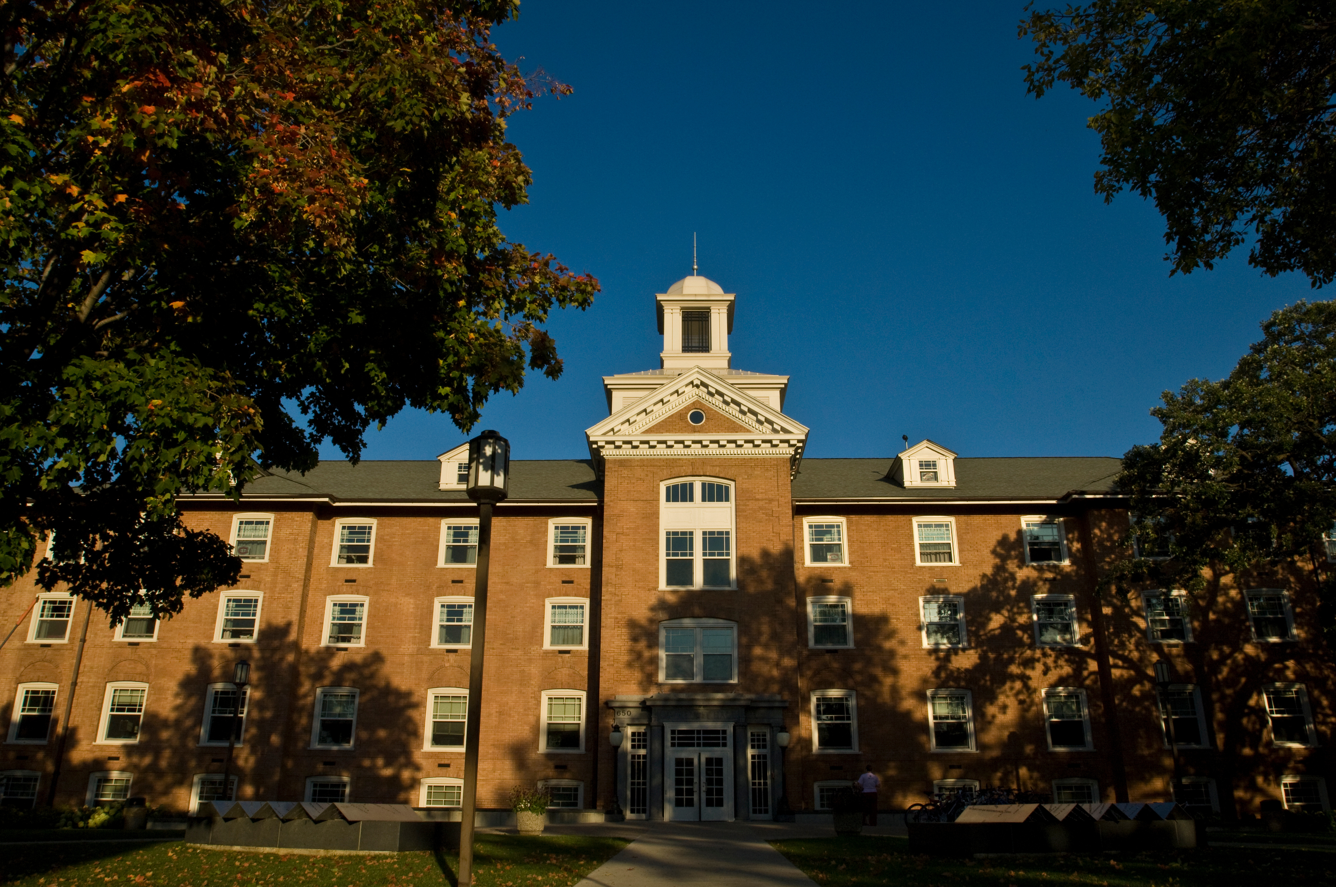 Lawrence Hall, St.Cloud State University 2013